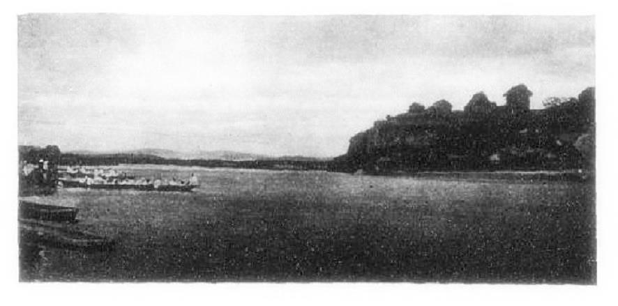 Ikopa River, Madagascar